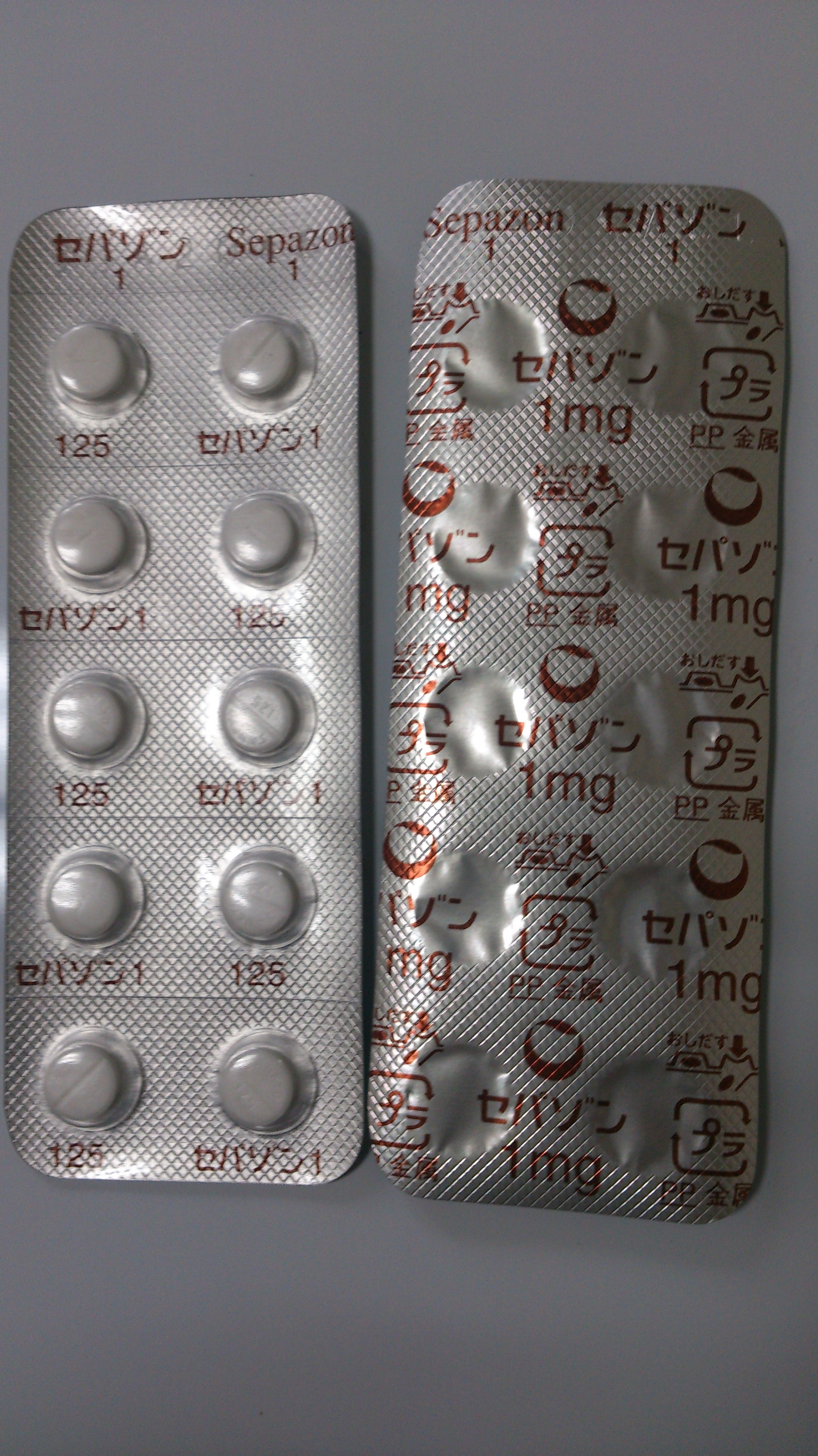 Sepazon (cloxazolam) 1 mg tablets